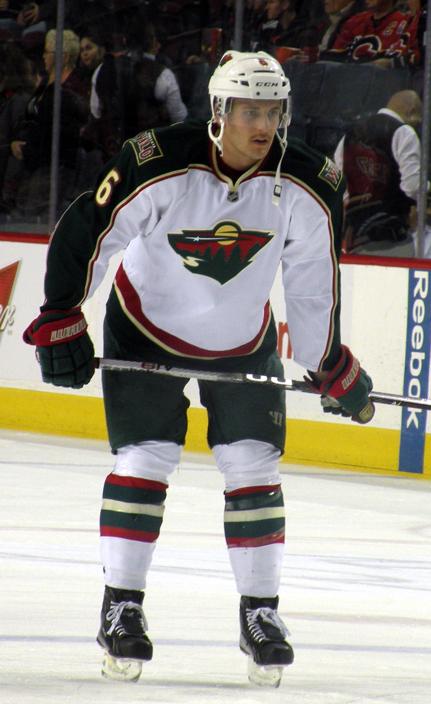 Minnesota Wild defenceman Marco Scandella prior to a National Hockey League game against the Calgary Flames, in Calgary.